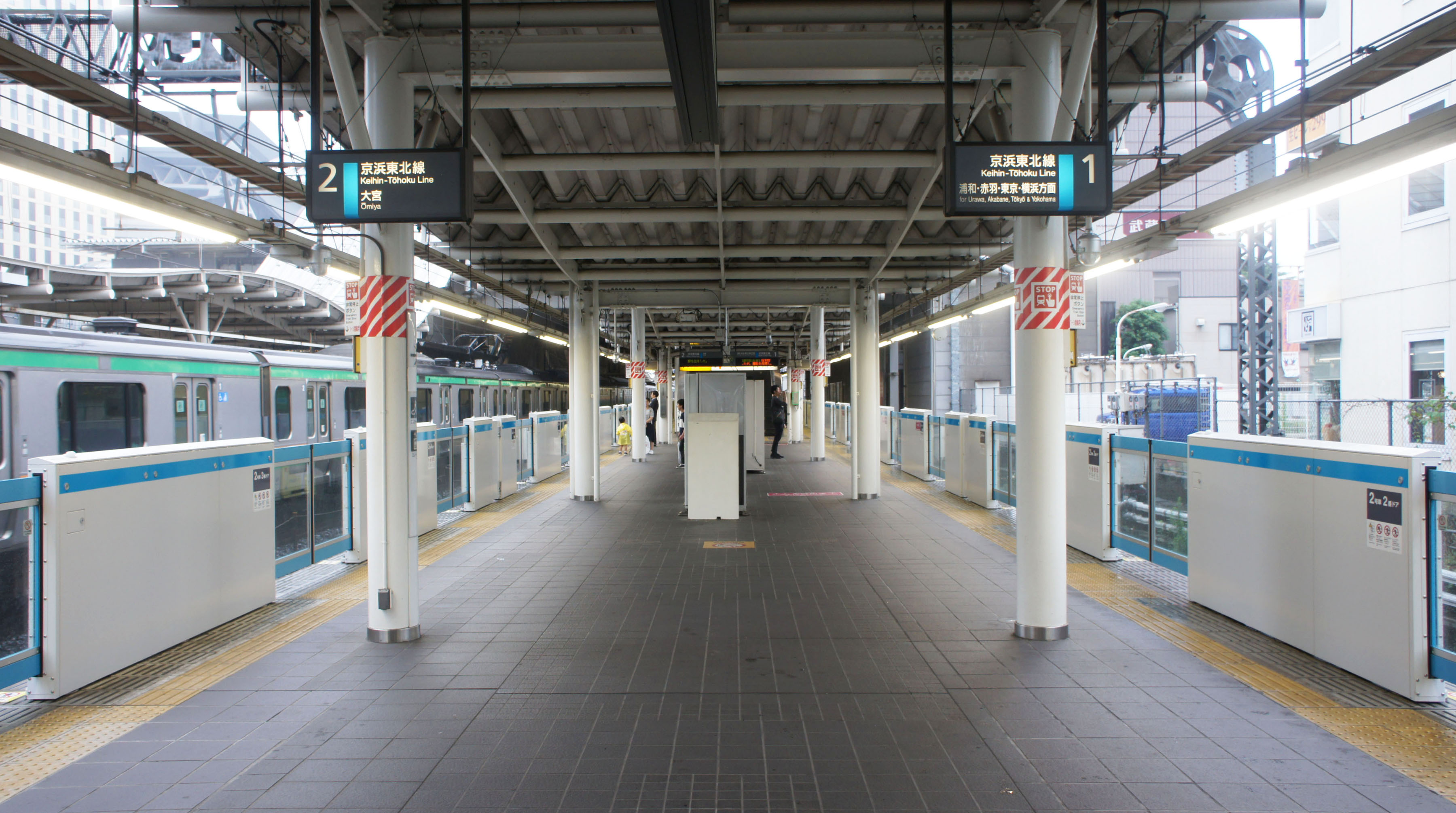 Platform 1・2 (Keihin-Tohoku Line) of JR Saitama-Shintoshin Station Sony NEX-3 + E 18-55mm F3.5-5.6 OSS